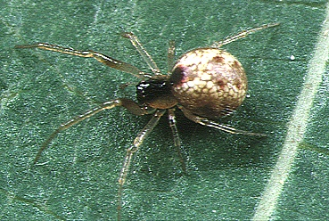 female Anelosimus exiguus from Okinawa.